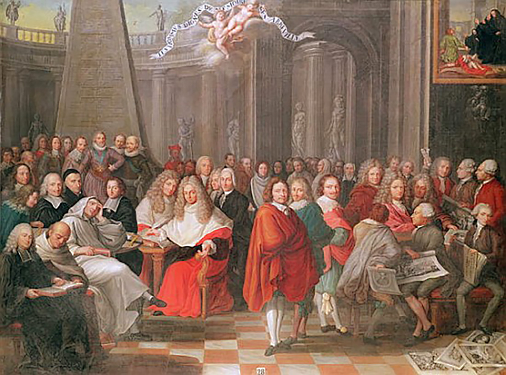 XIR199213 Group of Distinguished Gentlemen Born in or Around Abbeville (oil on canvas) by Choquet, Pierre Adrien (1743-1813); Musee Boucher de Perthes, Abbeville, France; (add. info.: Les Hommes Dignes de Memoire Nes a Abbeville ou aux Environs); Giraudon; French, out of copyright